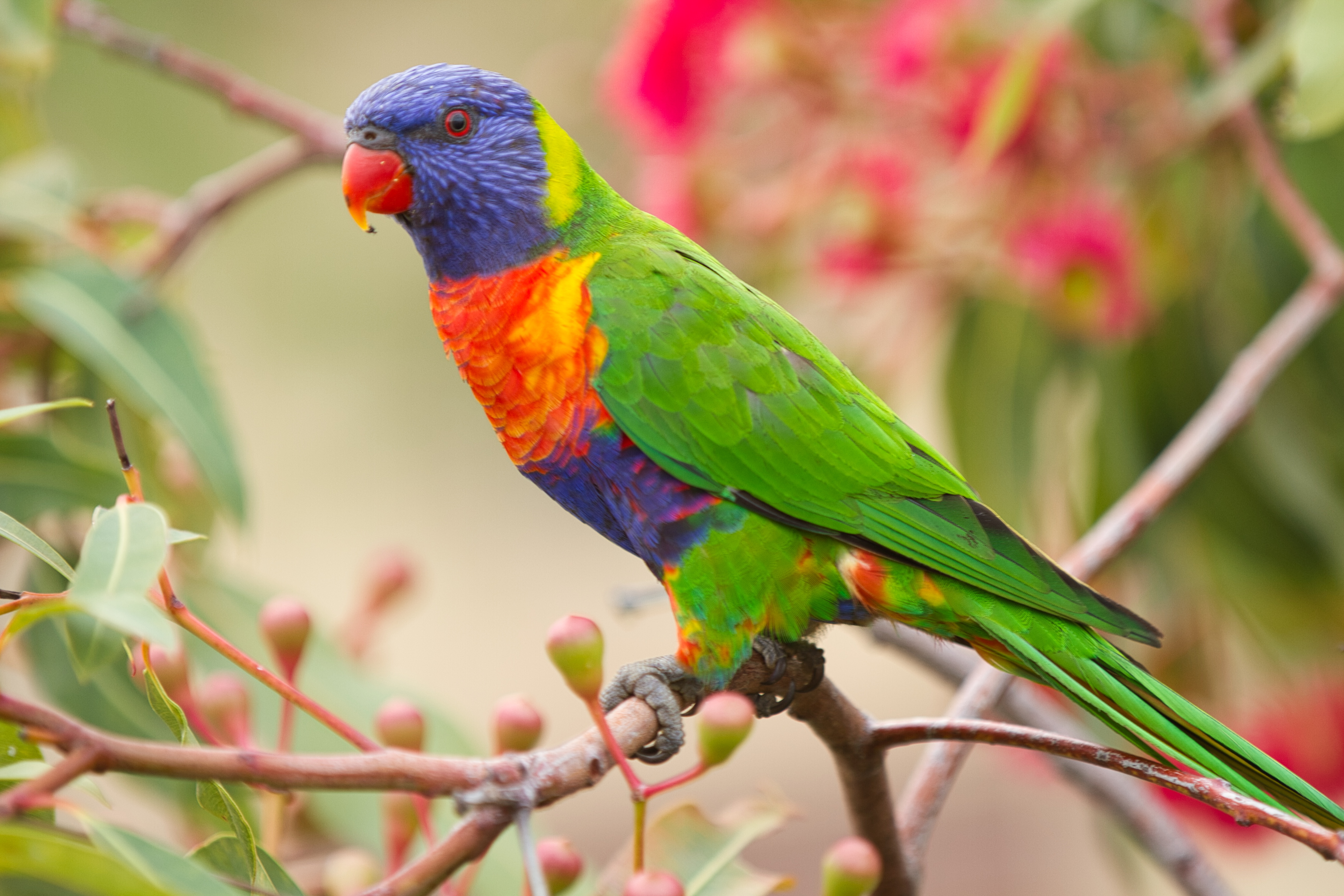 Rainbow Lorikeet (Trichoglossus moluccanus) in Brisbane, Queensland.